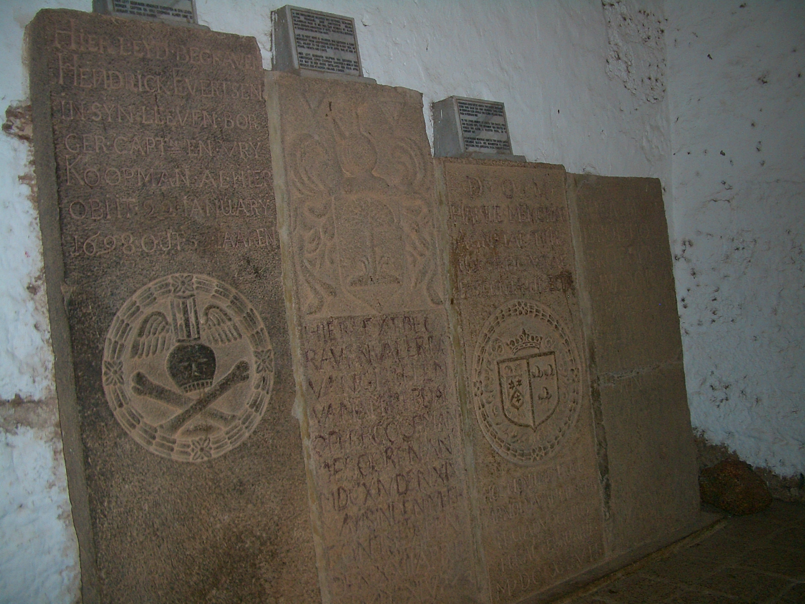 Old Dutch tombstones in Melaka's ruined St Paul's church. The area is very popular with tourists